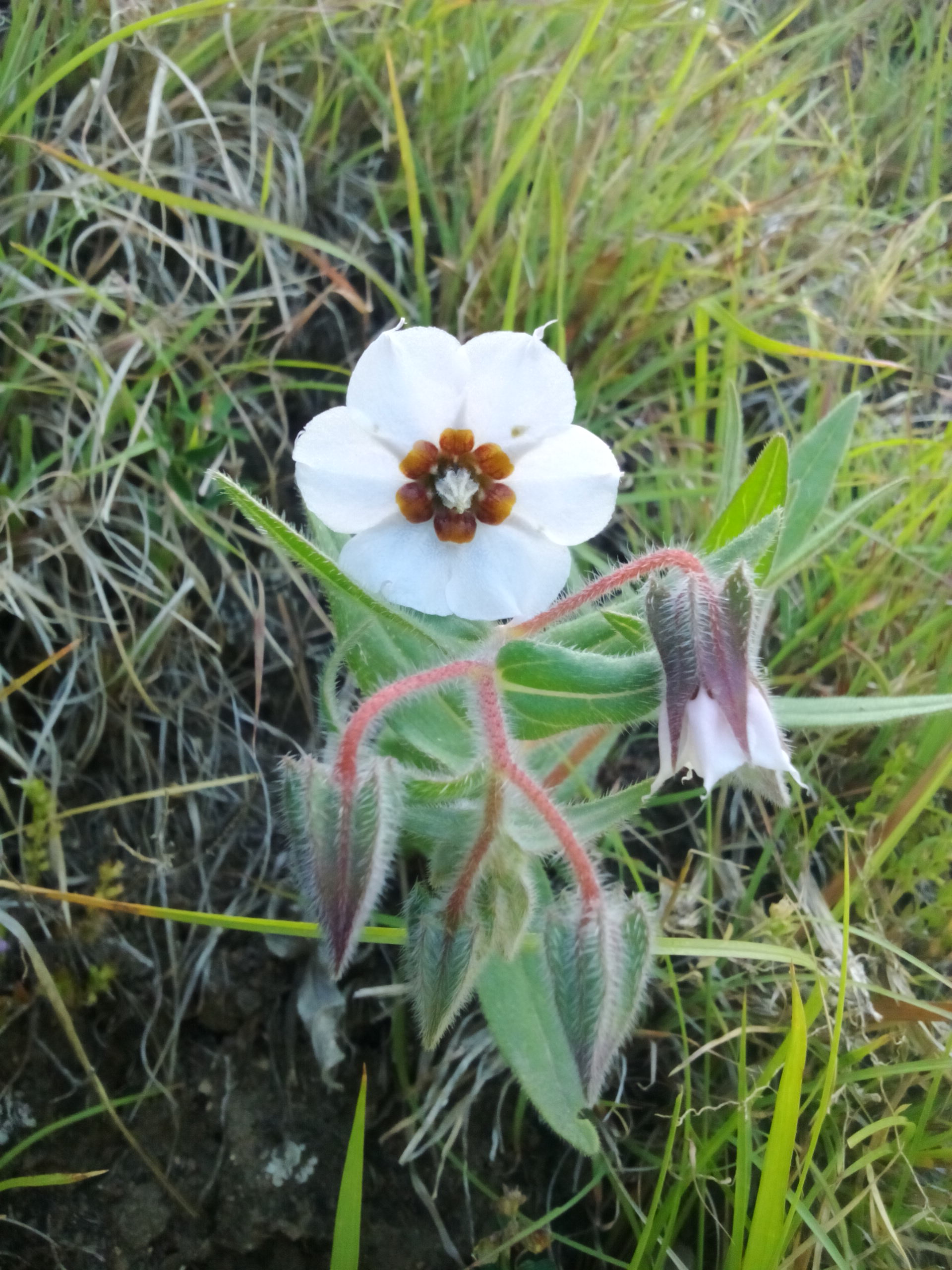 Sarban hill